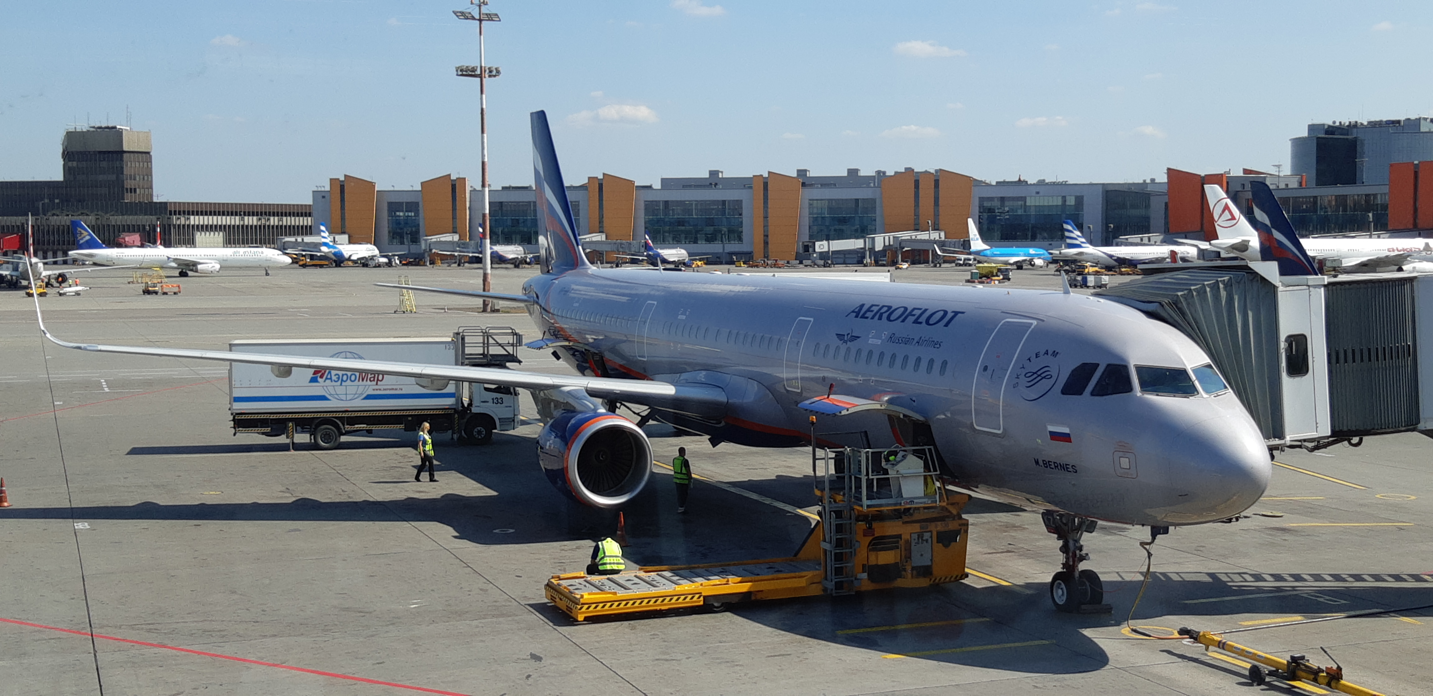 Airbus A321 Sharklet docked to gate 27 of the Terminal D of Sheremetyevo Airport, Moscow.